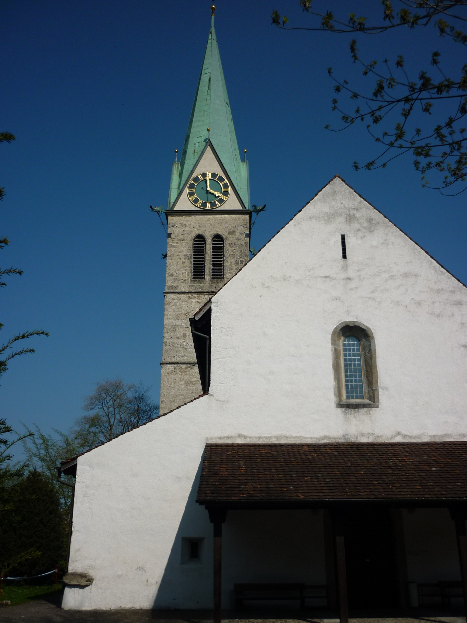 Old church of Oberwinterthur ZH, Switzerland